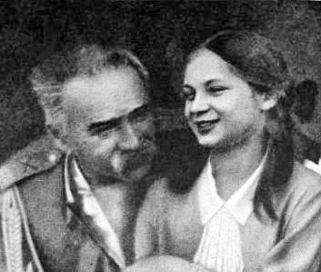 Józef Piłsudski (1867-1935) with his daughter.